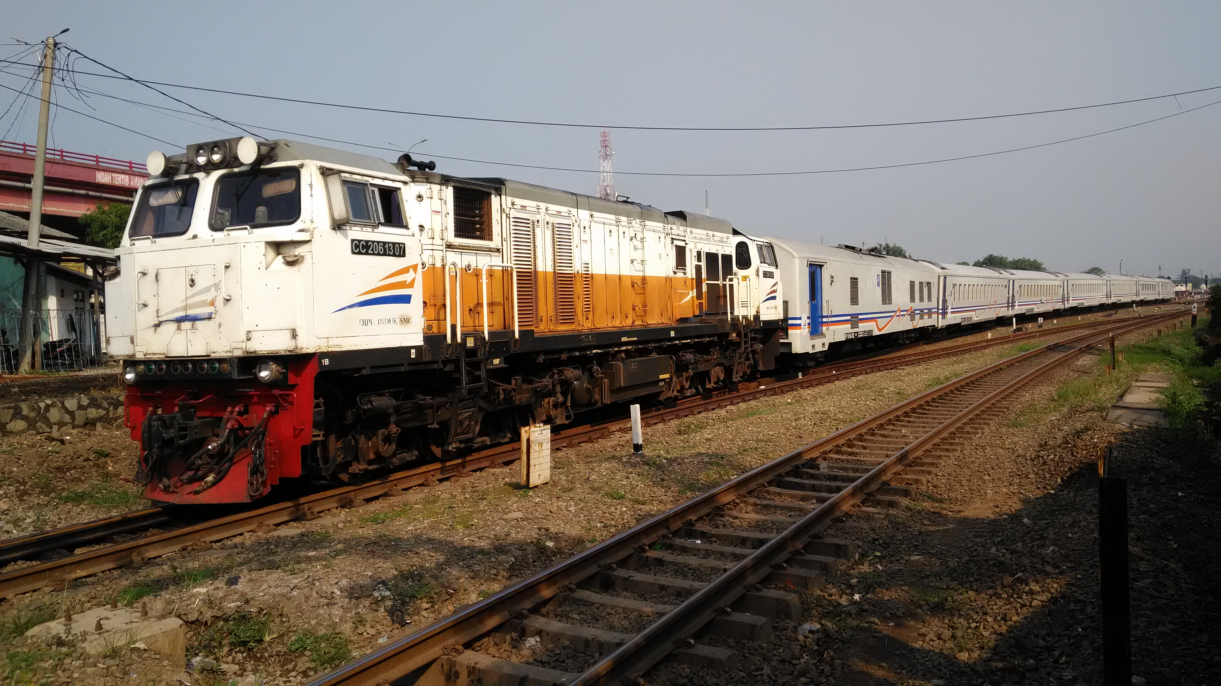 Ciremai Ekspres Train crossing JPL 1 Cikampek